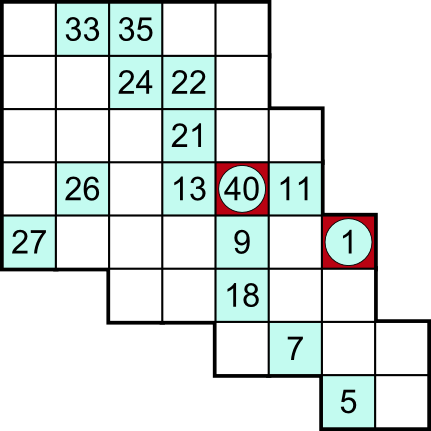 An easy Hidato puzzle.